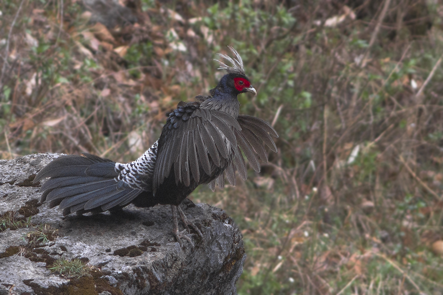 The species Kalij Pheasant had been photographed from Nainadevi Himalayan Bird Conservatiopn Reserve in Uttarakhand, India on 28.05.2016.